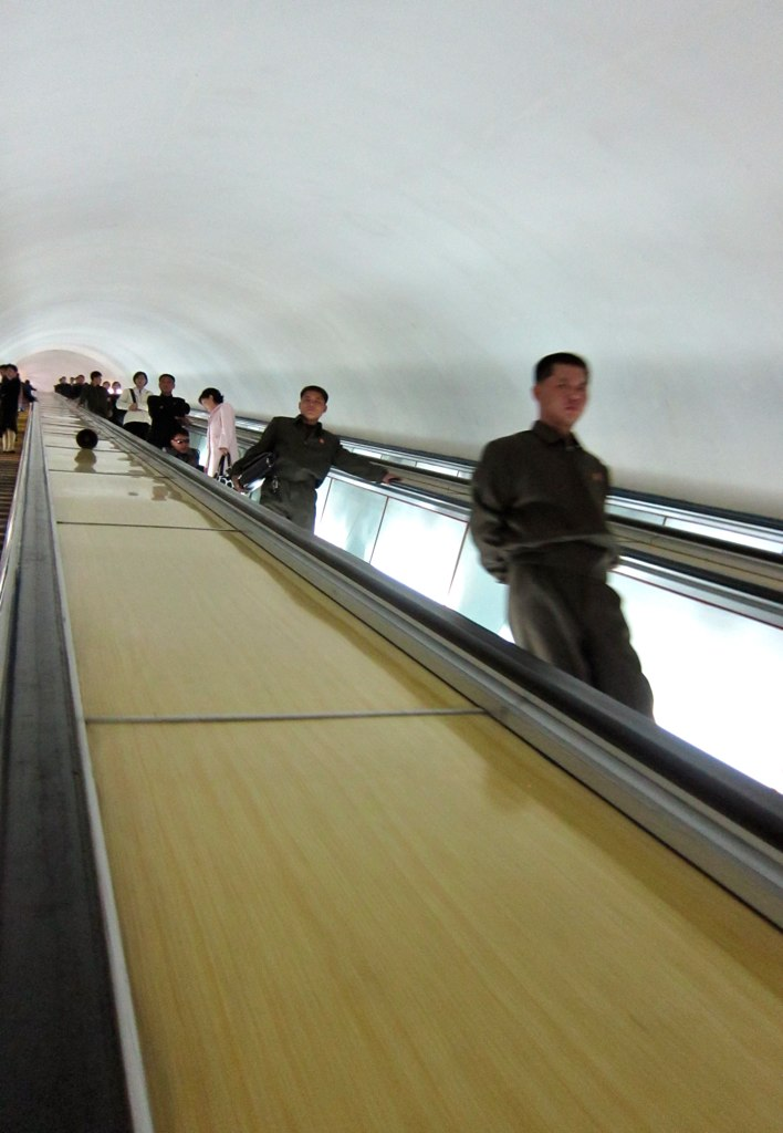 The Pyongyang Metro is roughly 200 meters underground and doubles as a Nuclear Fallout Shelter. Riding the escalator down to the tracks from street level takes several minutes.